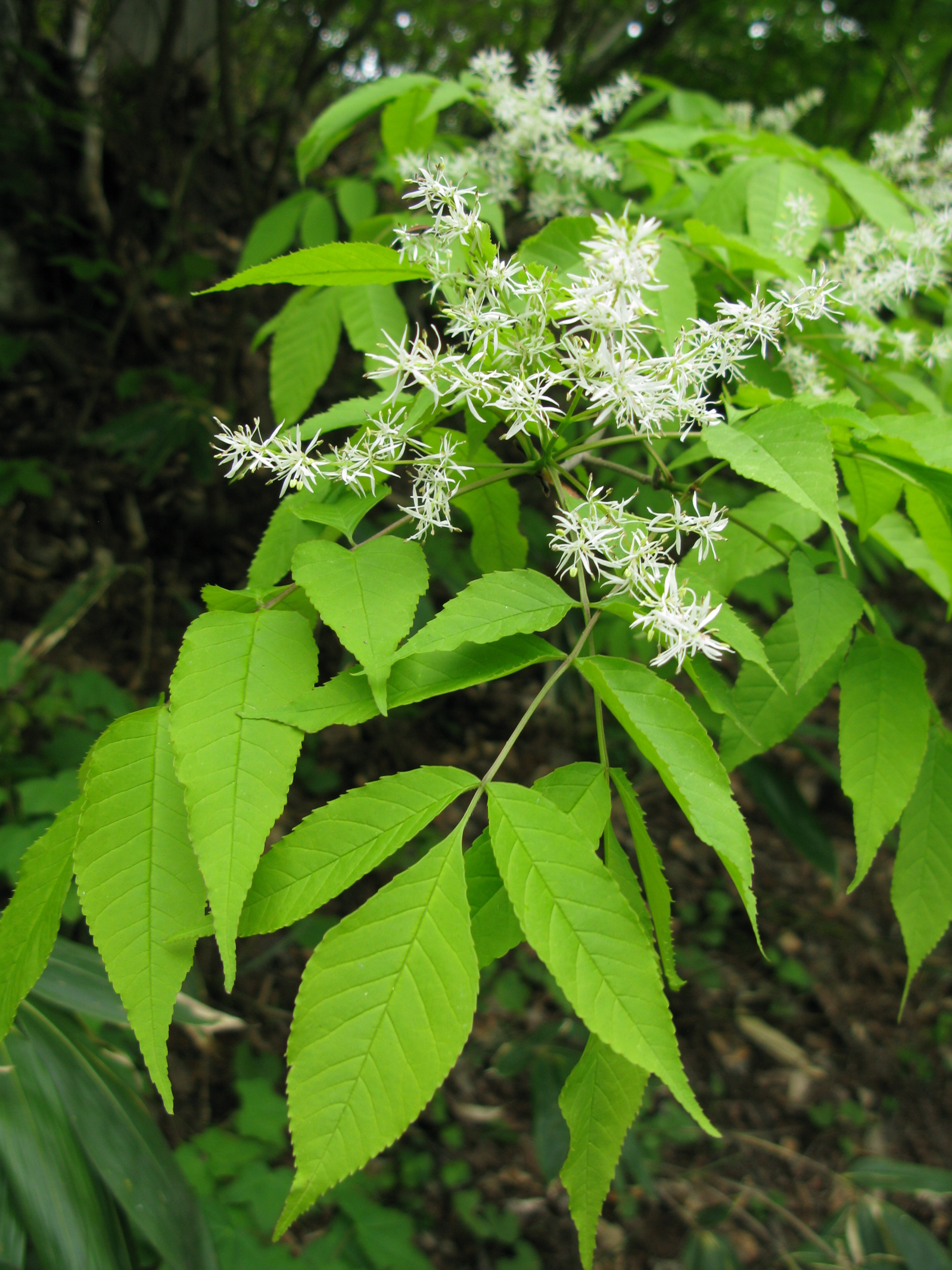 Fraxinus lanuginosa f. serrata, hermaphrodite, Aizu area, Fukushima pref., Japan